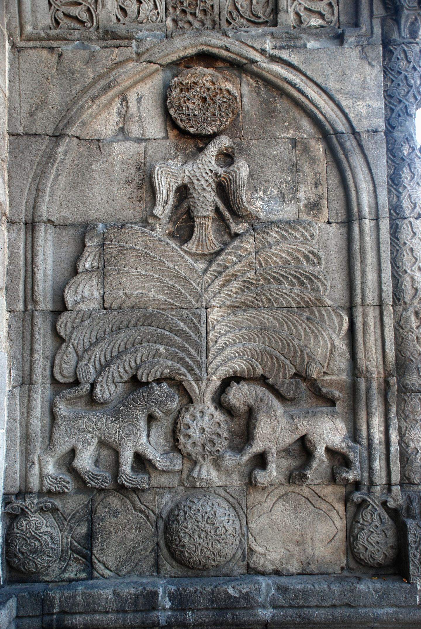 Erzurum, Yakutiye Medresesi, tree of life at front door